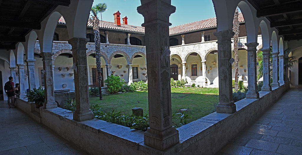 Franciscan monastery, Pula